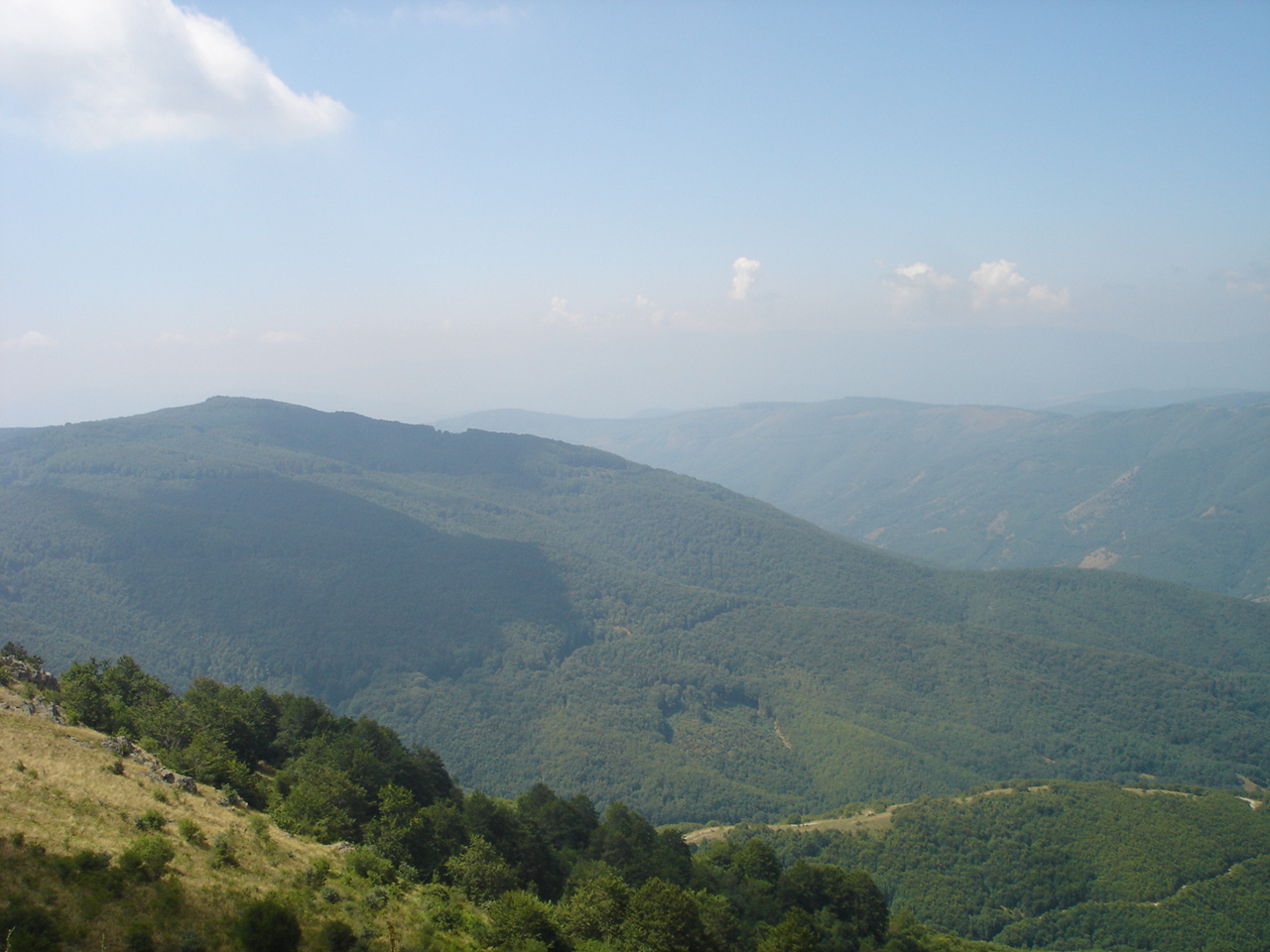 Busheva mountain, Macedonia